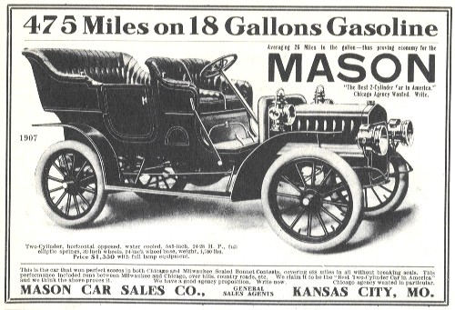 1907 dealer ad for the Mason 24 HP touring. Although it seems tha fuel consumption was of interest even back in 1907, the Mason Motor Car Co. usually stressed the climbing ability of this well built twin cylinder car designed by Fred S. Duesenberg.